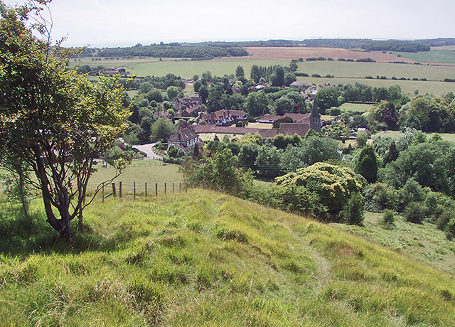 Postling from the Downs